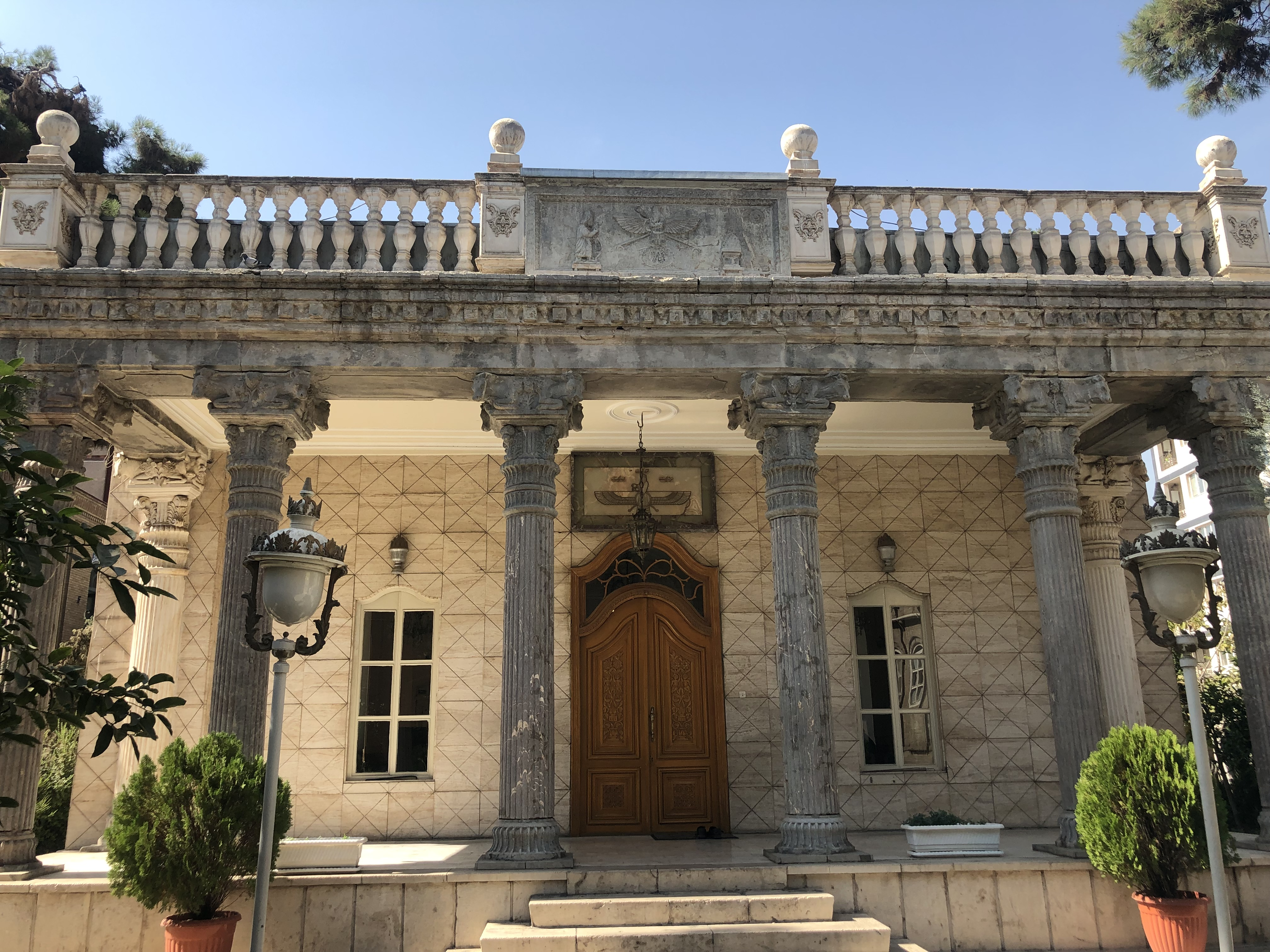 Adrian Temple